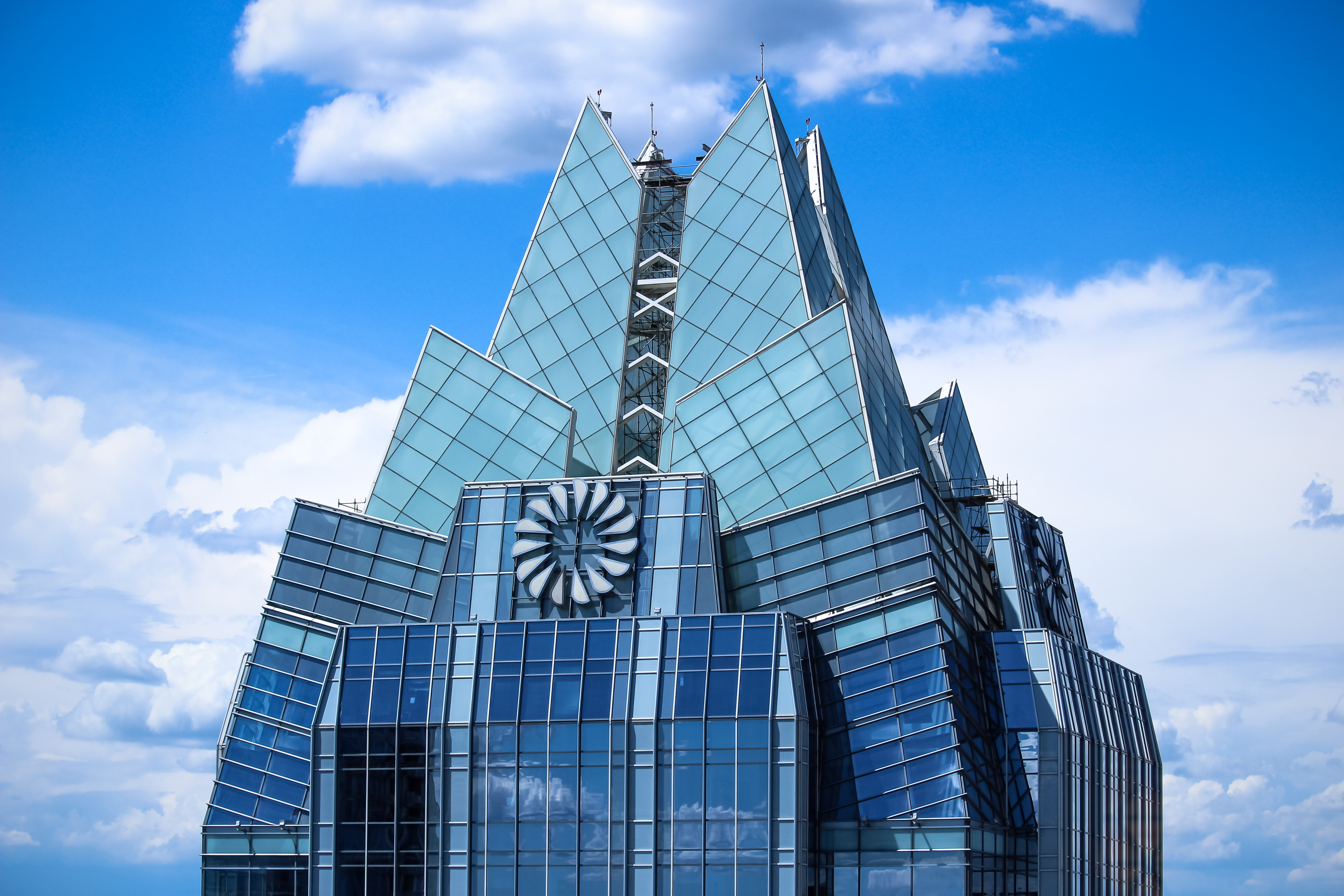 Taken from the 34th floor of the JW Marriot